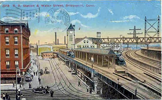 Postcard showing the Railroad station and Water Street in Bridgeport, Connecticut with 1916 postmark.